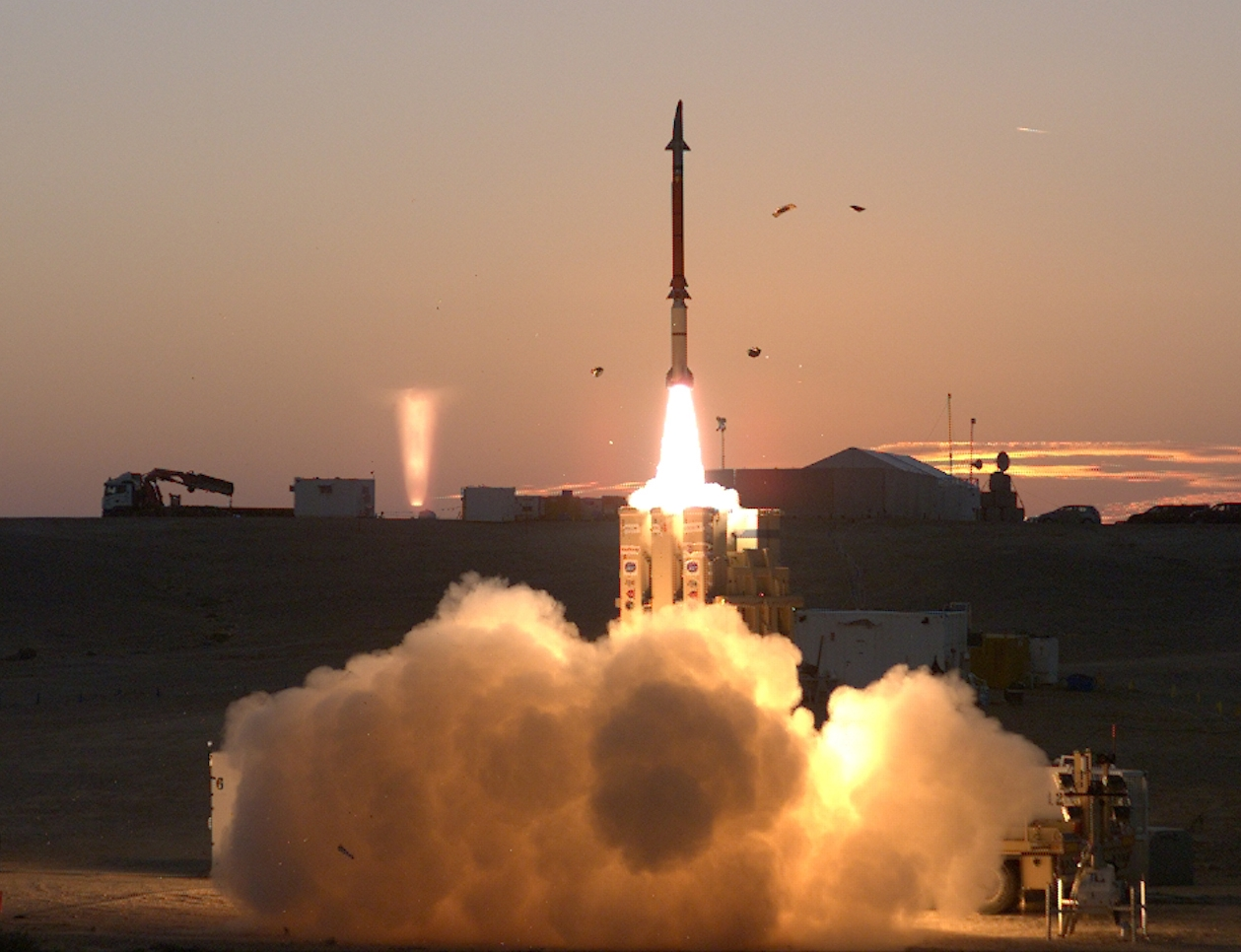 "David's Sling" (Hebrew designation "Sharvit Ksamim") is an Israeli air defense system. In this photo: an interceptor missile is launched in the final December 2015, which ended successfuly with the interceptor destroying its target. The Israeli Missile Defense Agency declared the system "operational" and the Israeli Air Defense Command started to assimilate "Sharvit Ksmaim" (Magic Wand).